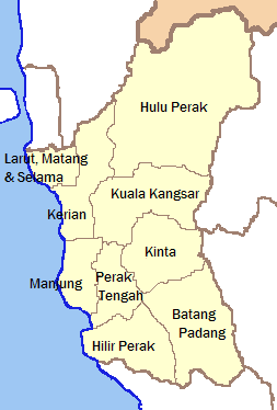 Districts of Perak